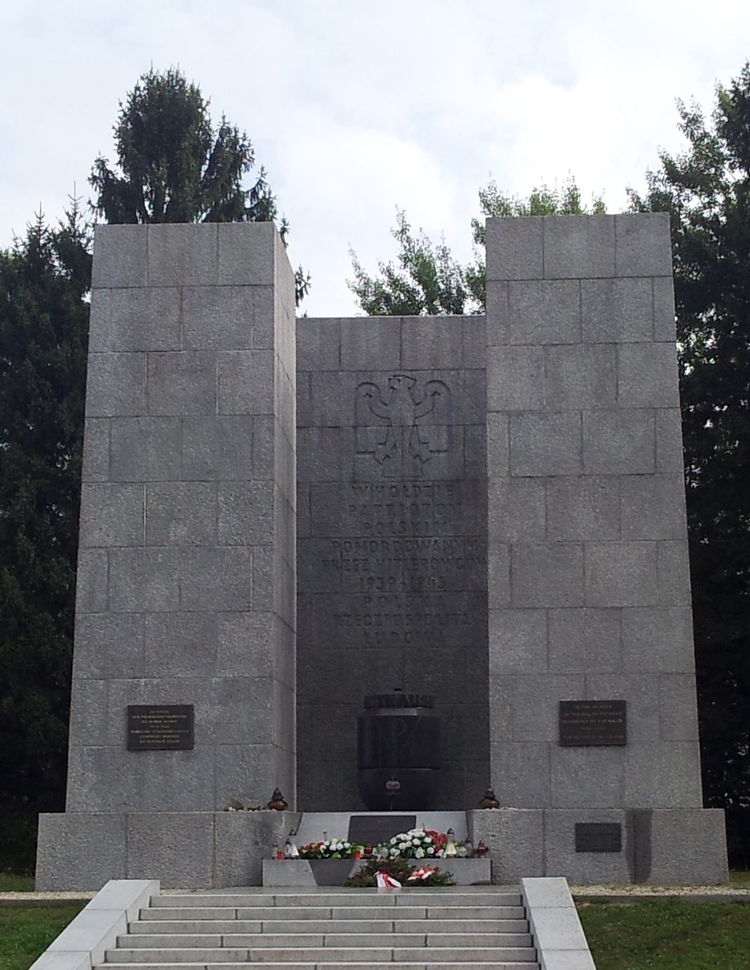 Polish monument in Concentration Camp Mauthausen